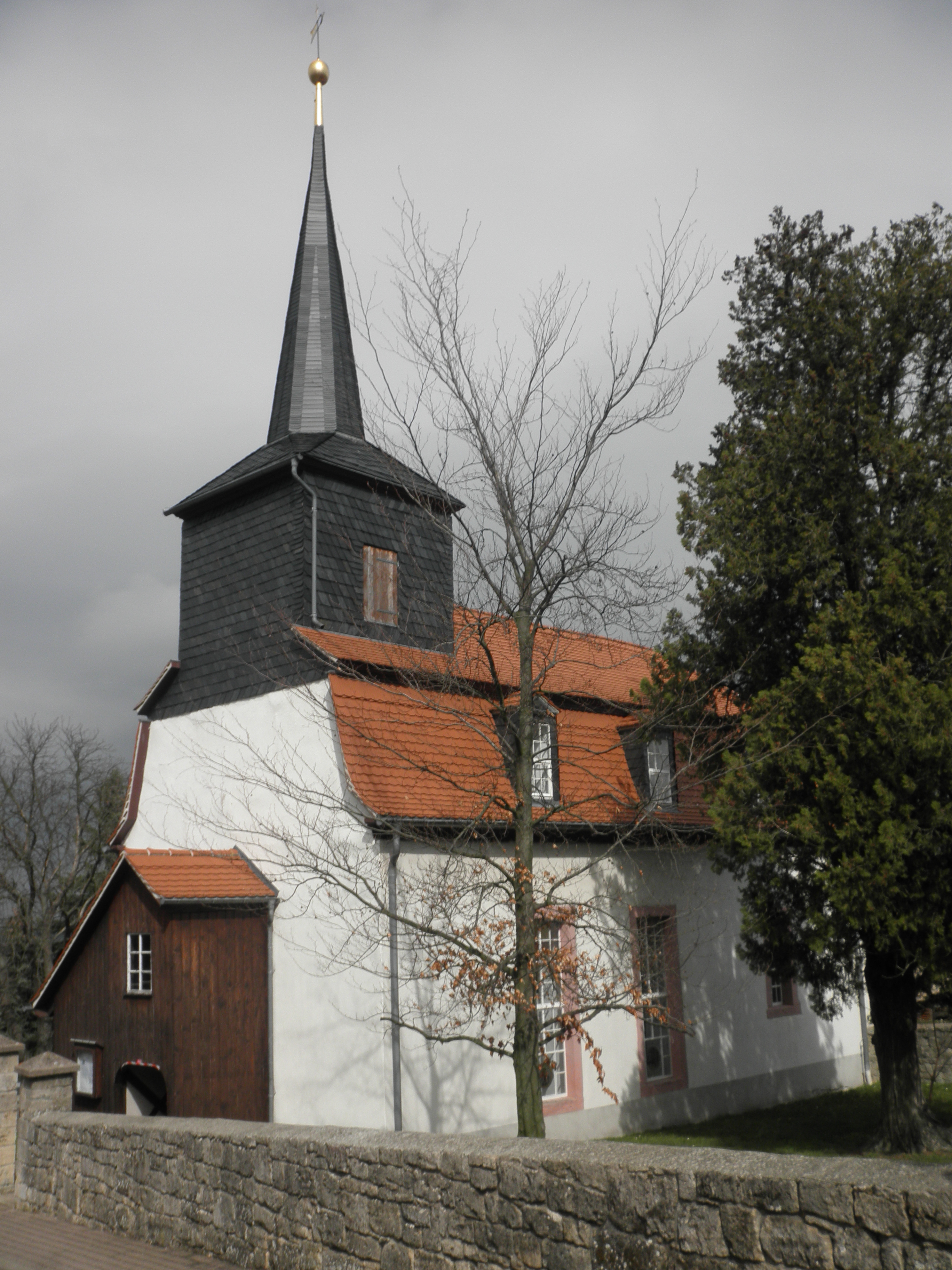 Church in Kiliansroda in Thuringia